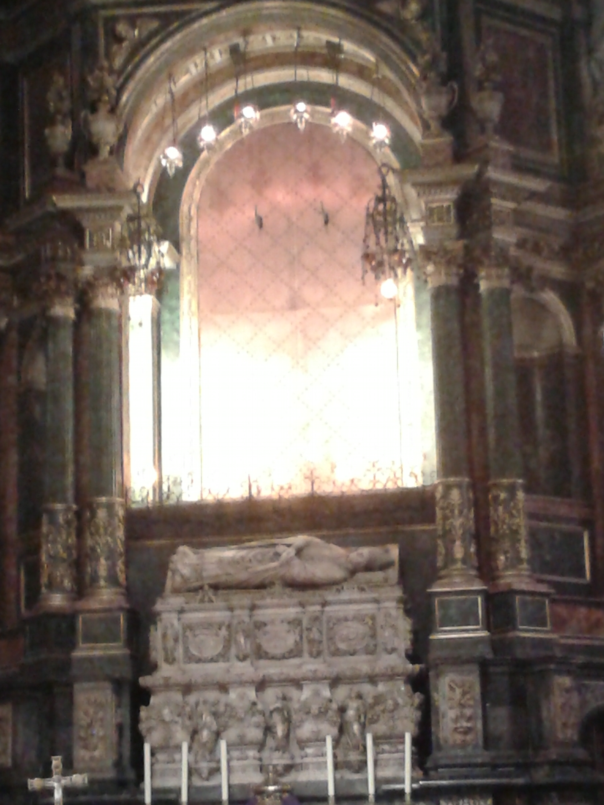 Capella del Santíssim de la catedral de Barcelona